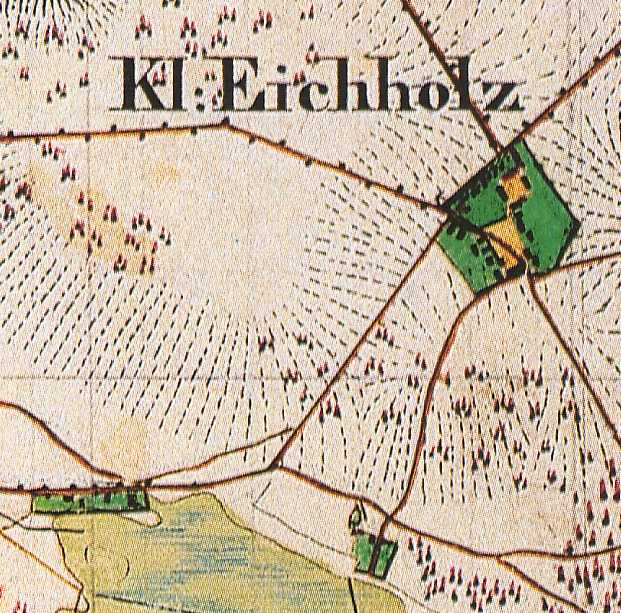 Klein-Eichholz, Gem.Heidesee, Lkr. Dahme-Spreewald, Brandenburg, Germany, detail from the Urmesstischblatt Sheet 3748 Friedersdorf, drawn in 1841